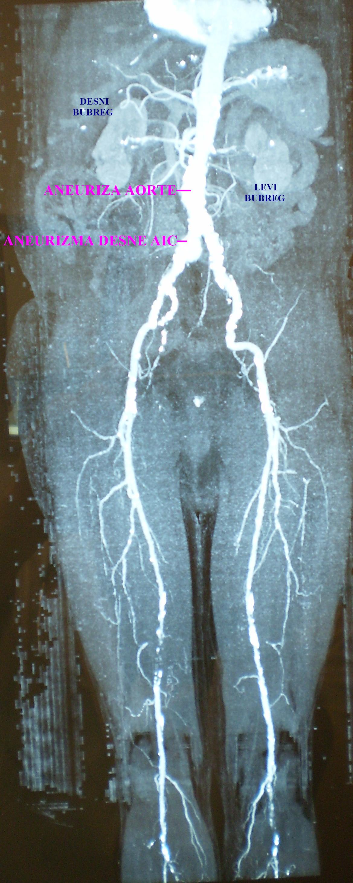 Angiography AAA end AAIC dex. Sours Milorad Dimic MD, Nis, Serbia